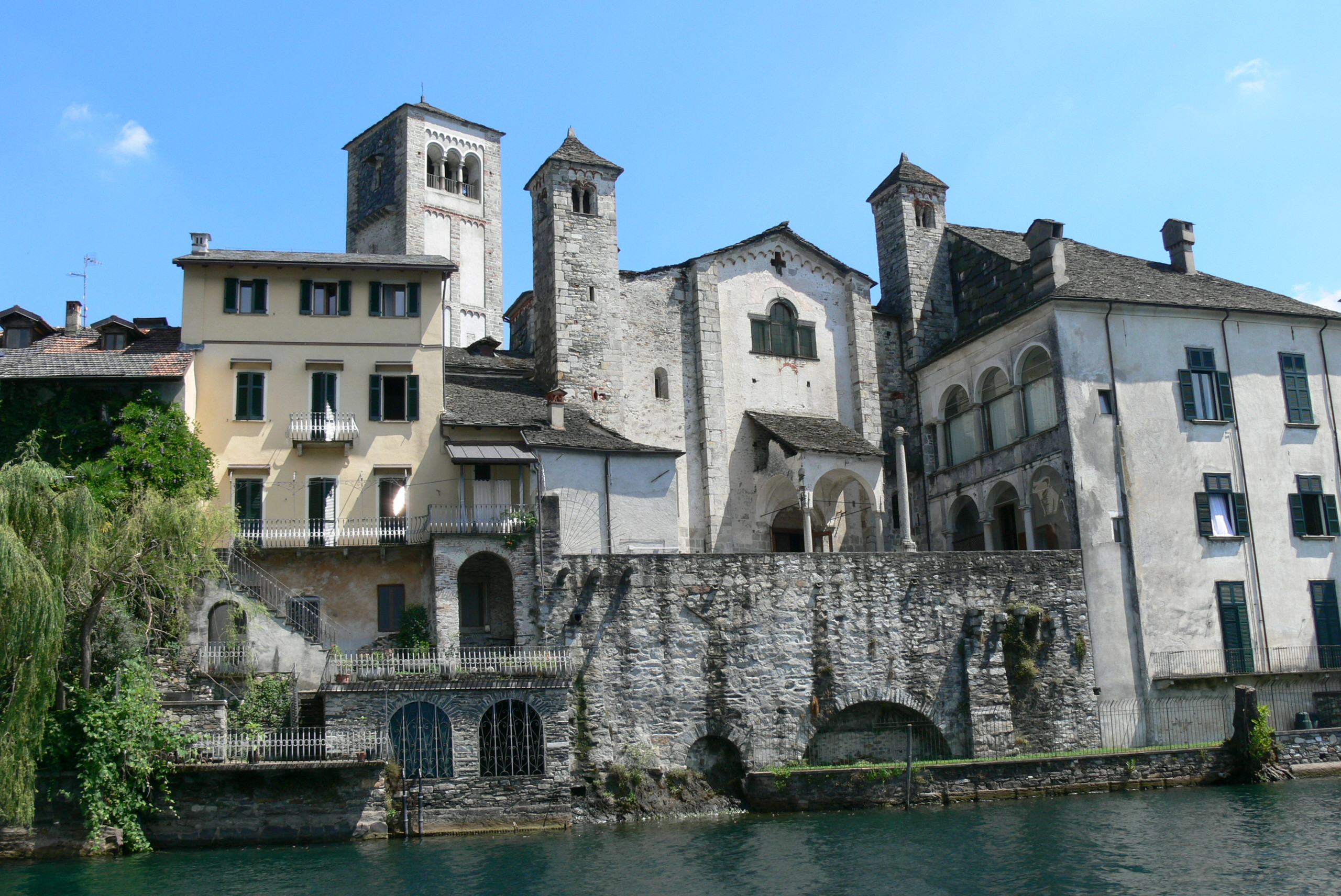 Orta - Basilica San Giulio ( Piedmont ). Facade ( 1150 ).